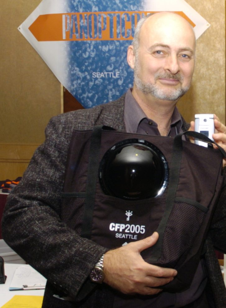 I captured this picture on my wearcomp system at the Association of Computing Machinery (ACM)'s CFP 2005 conference after the Opening Kenote Address I did with David Brin and others. The picture depicts Brin holding one of the sousveillance devices given to each attendee at the event. Fullsize image is in "pictures" link at